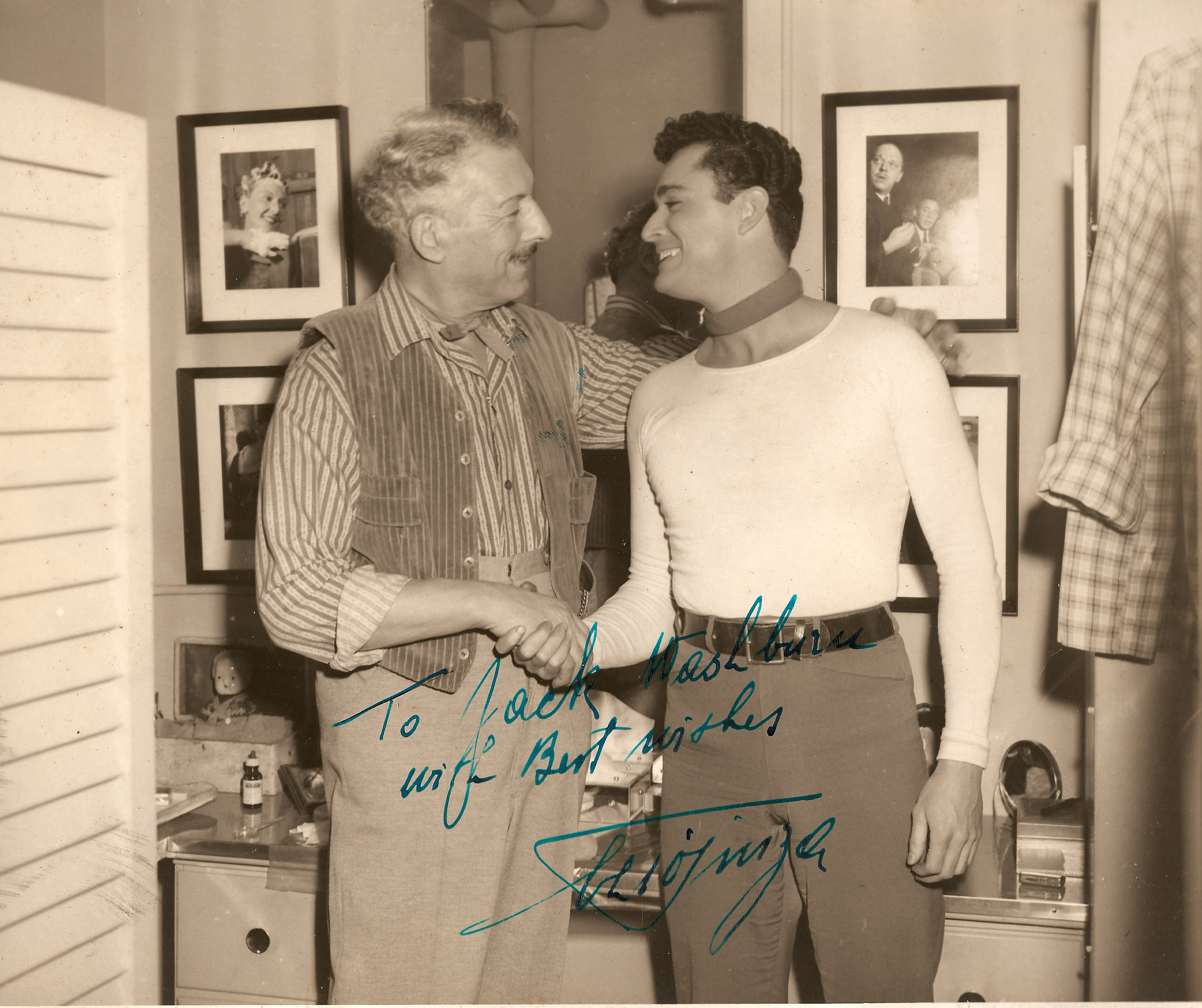 Jack Washburn backstage with Ezio Pinza.